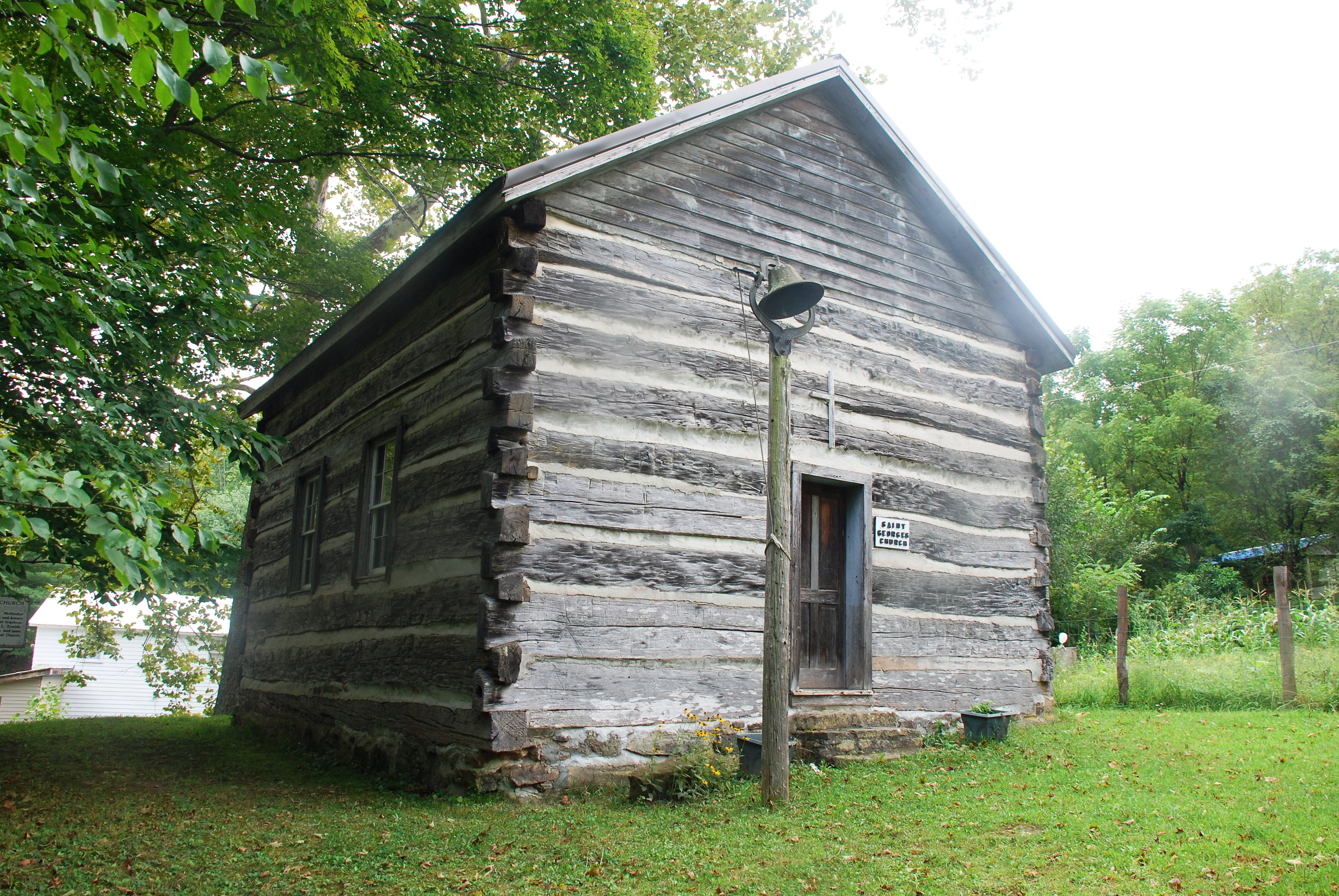 St. George’s Church in Smoke Hole Canyon. Built about 1850 as Methodist Episcopal Meeting House and Known as Palestine Church. Bought by Episcopal Church in 1931.